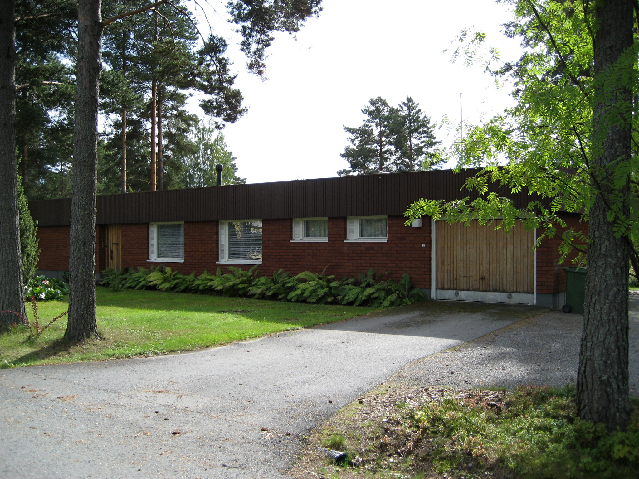 This red brick walled house, nicknamed "Ryysyranta" according to a well-known book by Ilmari Kianto, belonged to the famous Finnish singer Irwin Goodman. It is located in Parola, Hattula, Finland. Built in 1969, it was auctioned the following year due to the artist's unpaid debts and taxes by KOP Bank. A place of pilgrimage for some die-hard fans, today it is a private house and in residential use and should be treated as such.